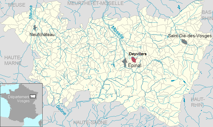 Deyvillers in the department of Vosges, Lorraine, France